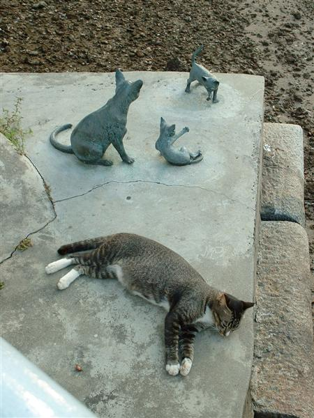 Statues / Sculptures of the Singapura cat aka Kucinta by the Singapore River. Together with a real local brown ticked(or is it mackerel?) tabby.